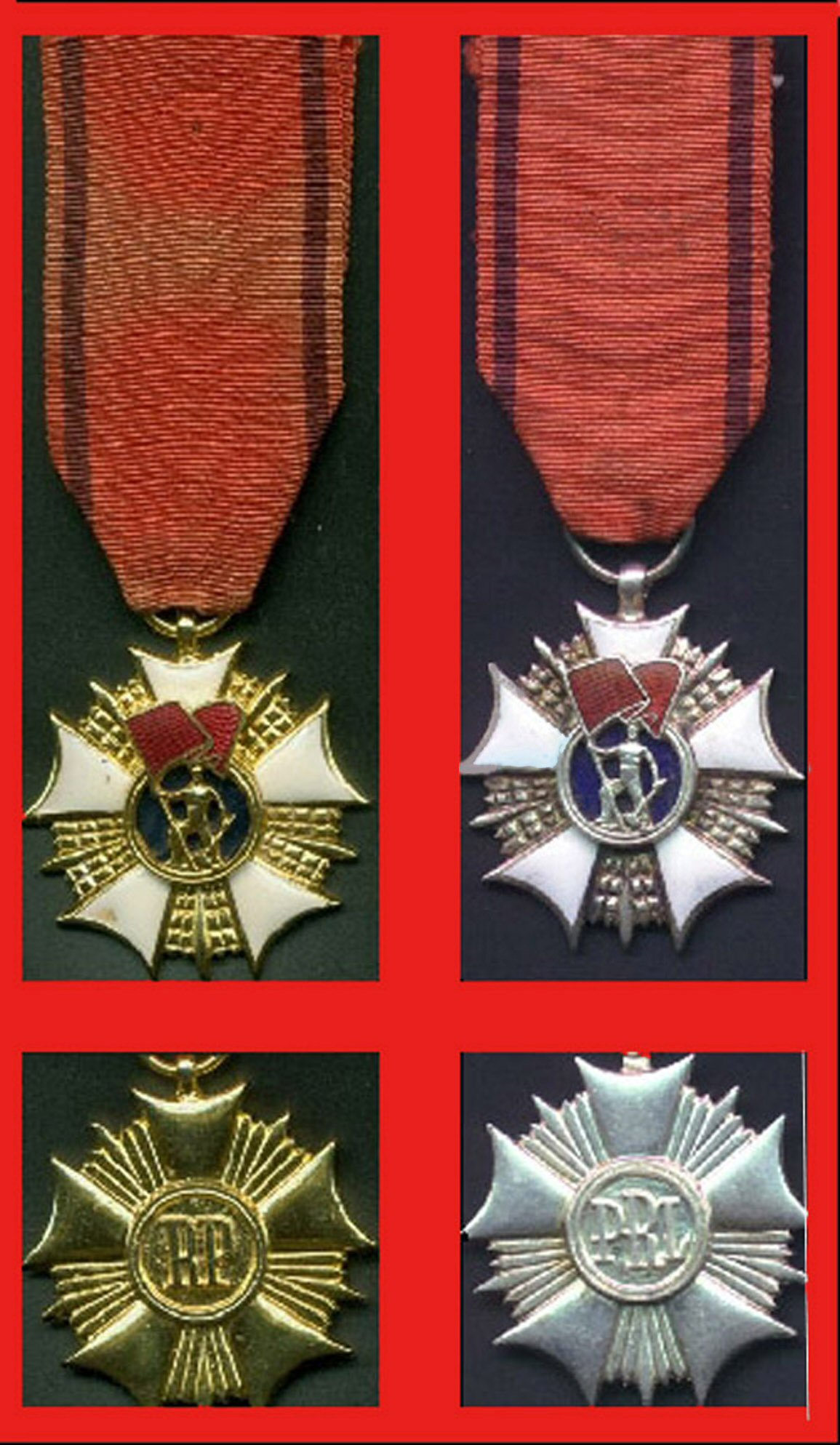 Order of the Banner of Labour (Classes I and II) established 2 July 1949, abolished 16 October 1992